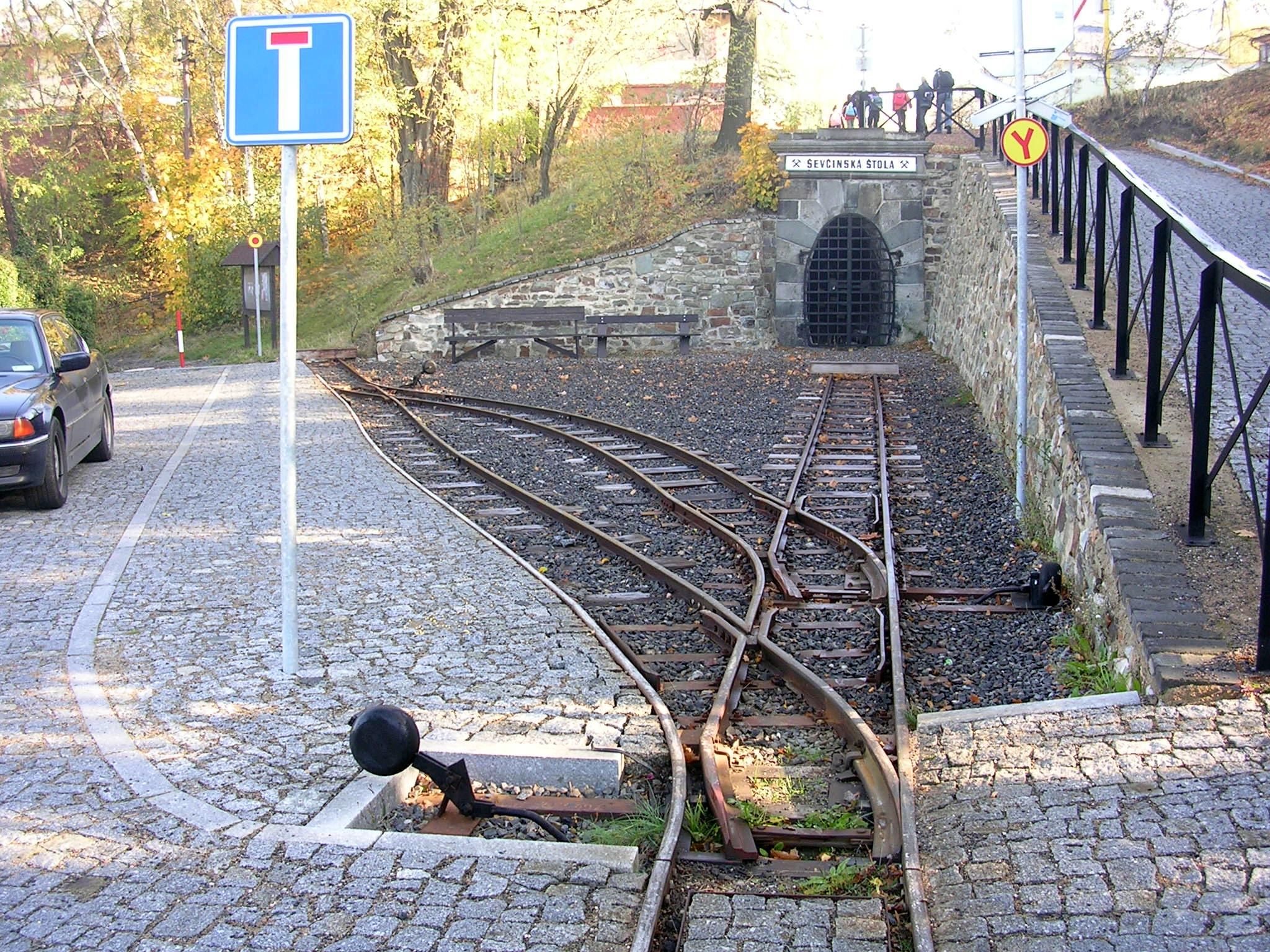 Příbram, mining museum.